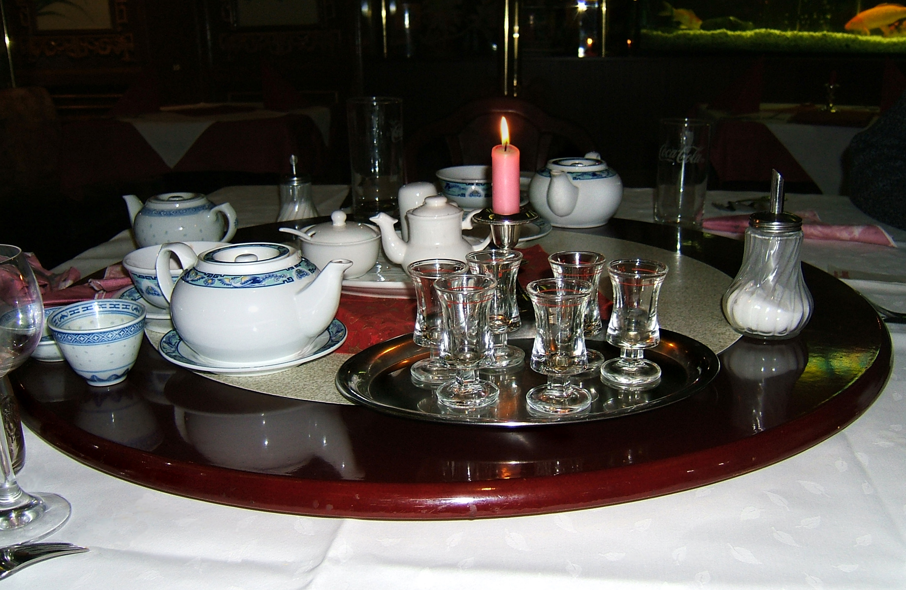 Tray full of empty glasses formerly containing plumwine, tea pots and other porcelain tableware in a chinese restaurant at the end of a German wikipedian meeting